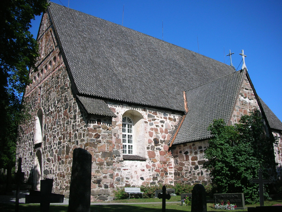 Nagu Church, Nagu, Väståboland, Finland